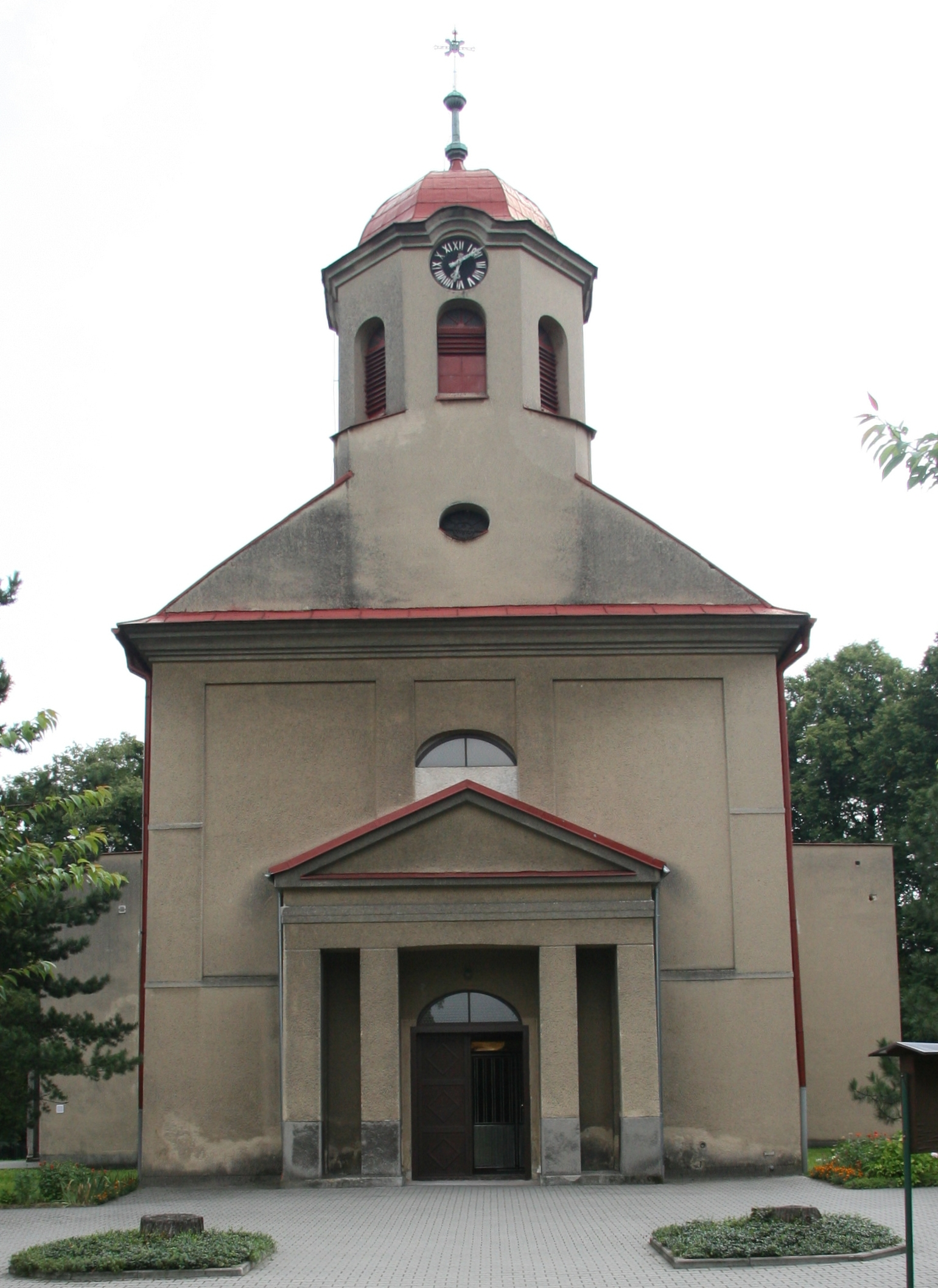 Church of saint Anne. Havířov, Karviná District, Moravian-Silesian Region, Czech Republic